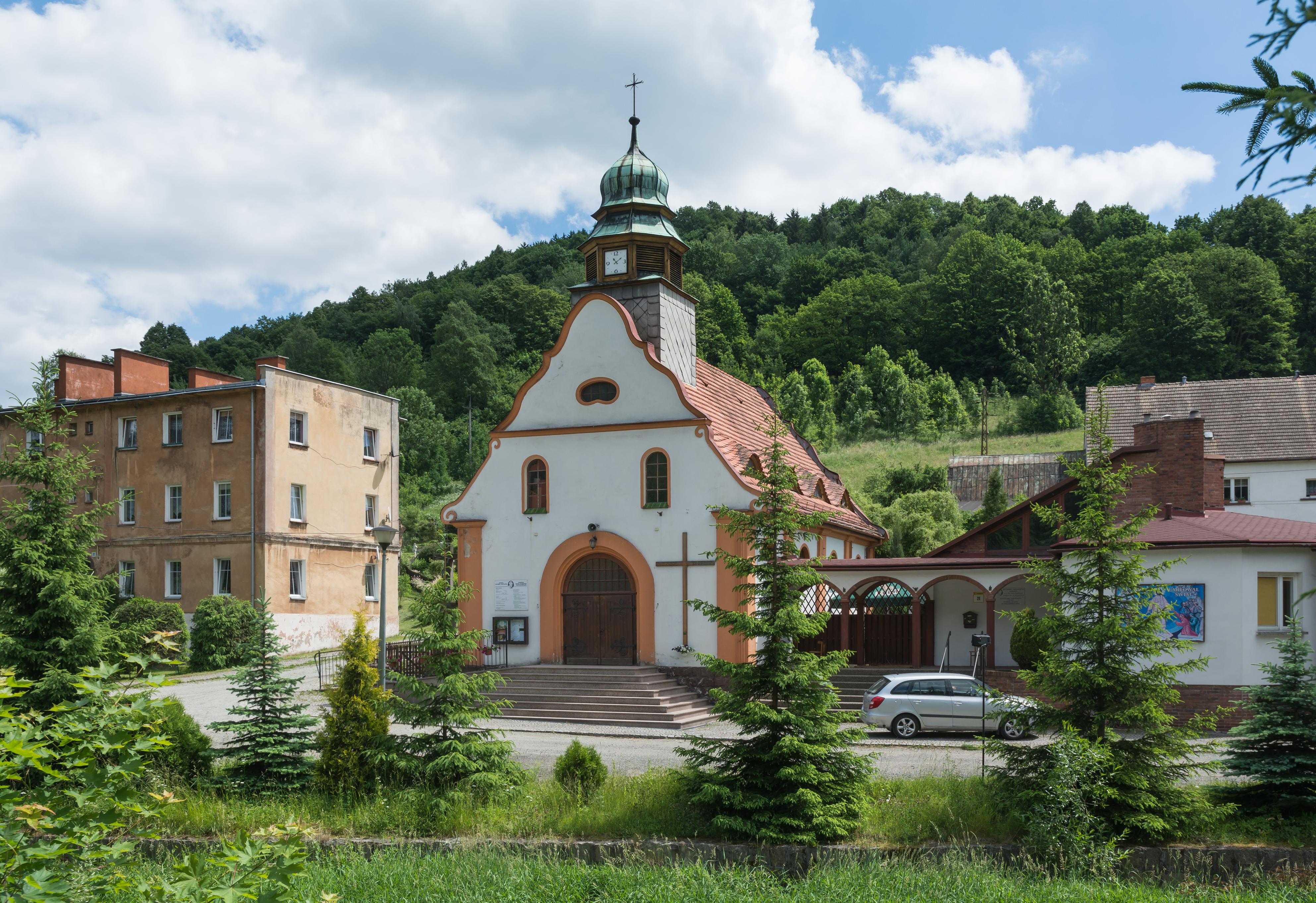 Petrus Canisius church in Włodowice